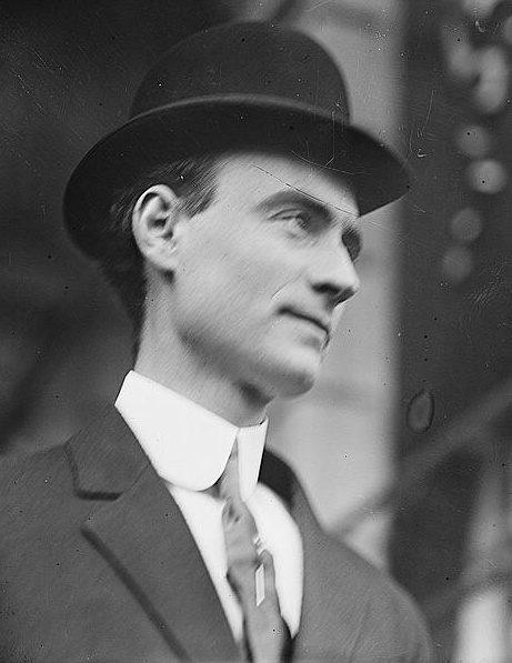 John Purroy Mitchel, mayor of New York City. Photo cropped to single out Mitchel.